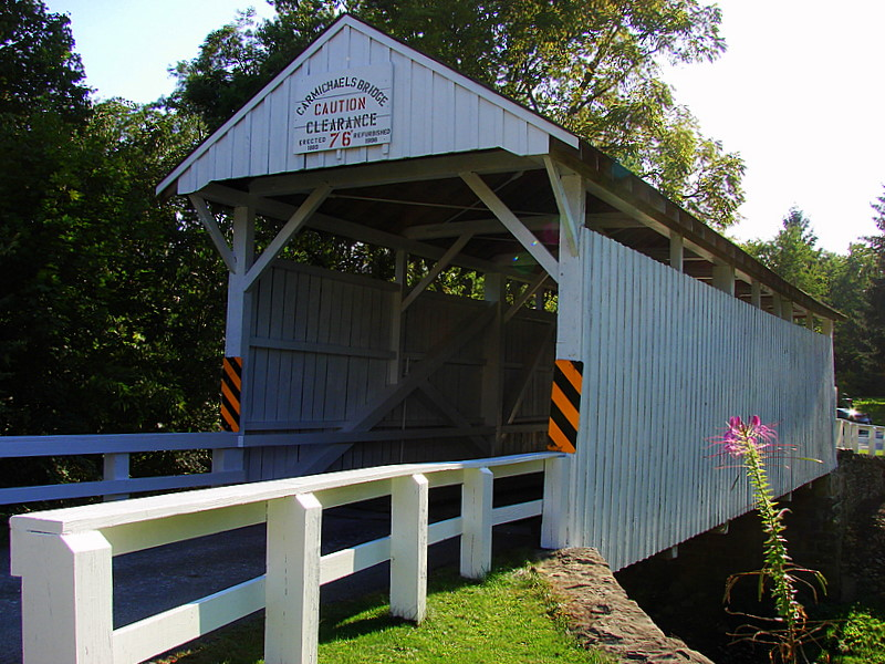 built in 1889; refurbished in 1998